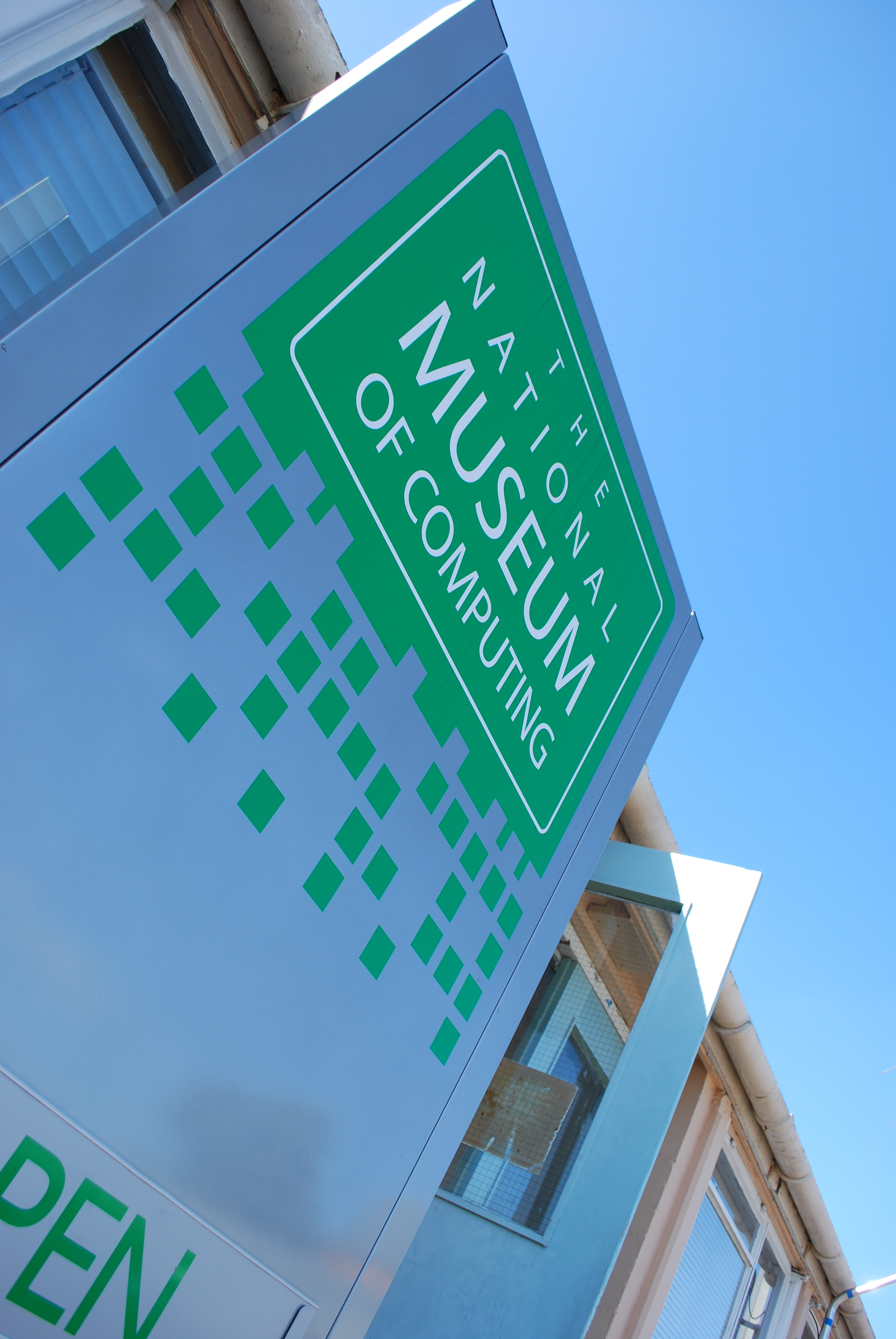 The National Museum of Computing's Sign